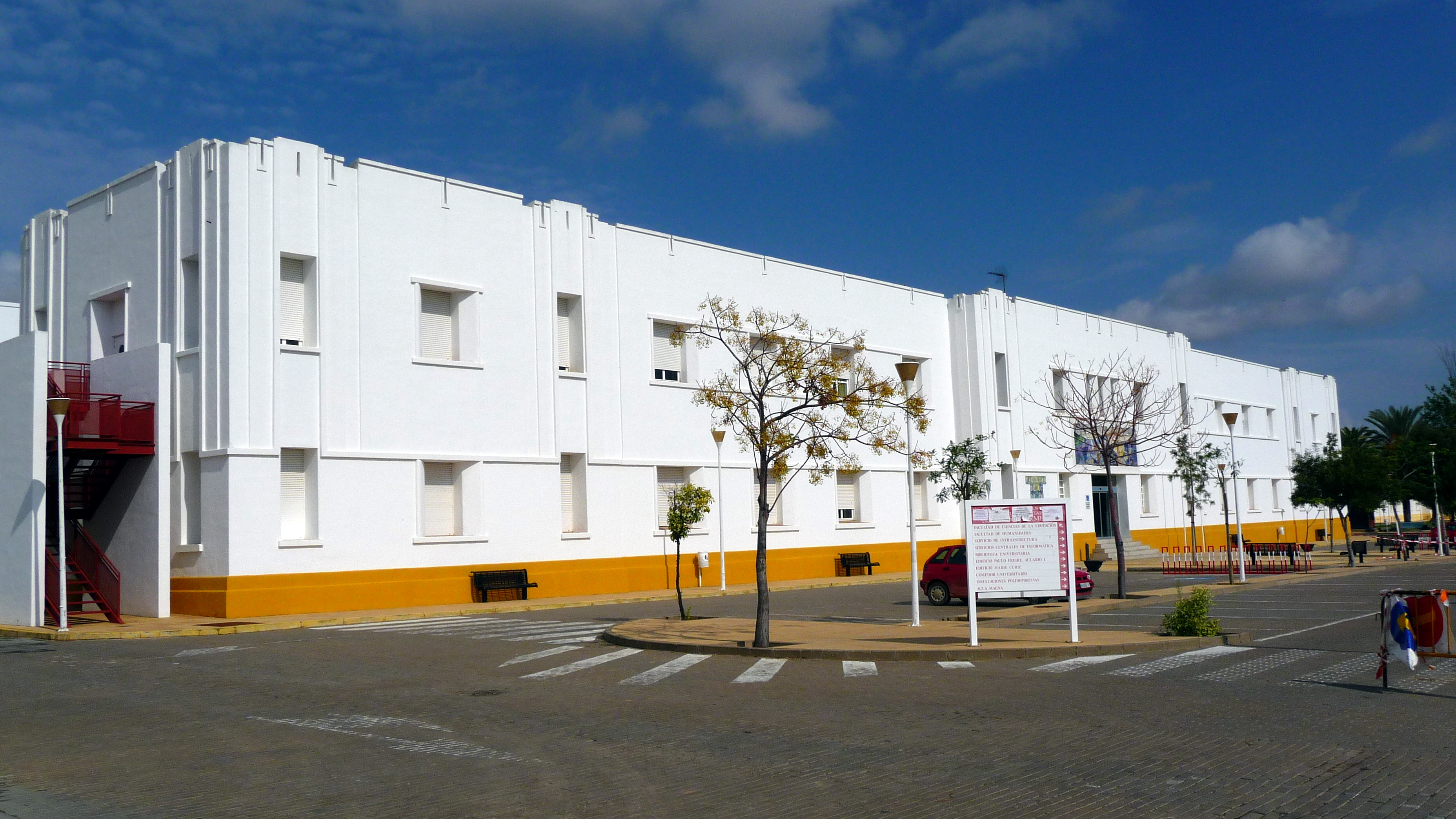 University of Huelva